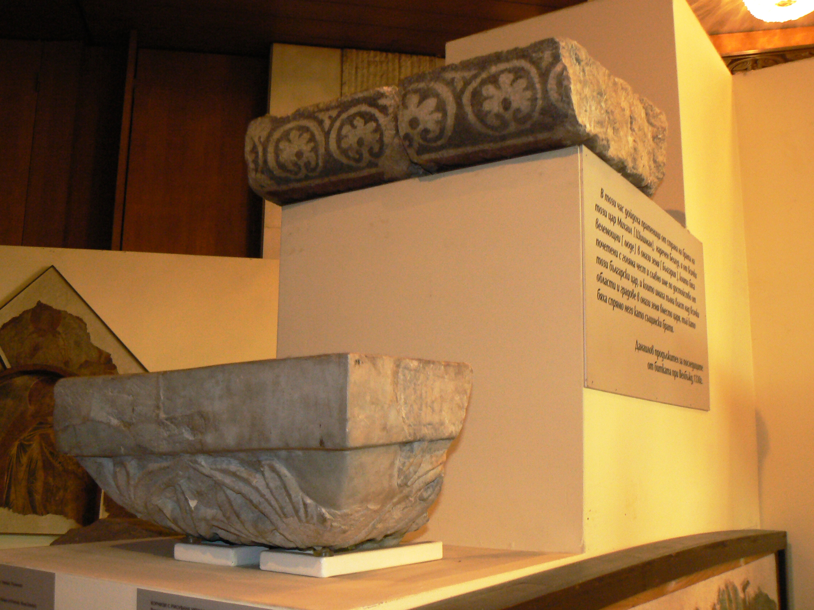 Limestone cornices with painted decoration in church 5 of the medieval stronghold of Cherven, Bulgaria. Exhibits of the National History Museum of Bulgaria